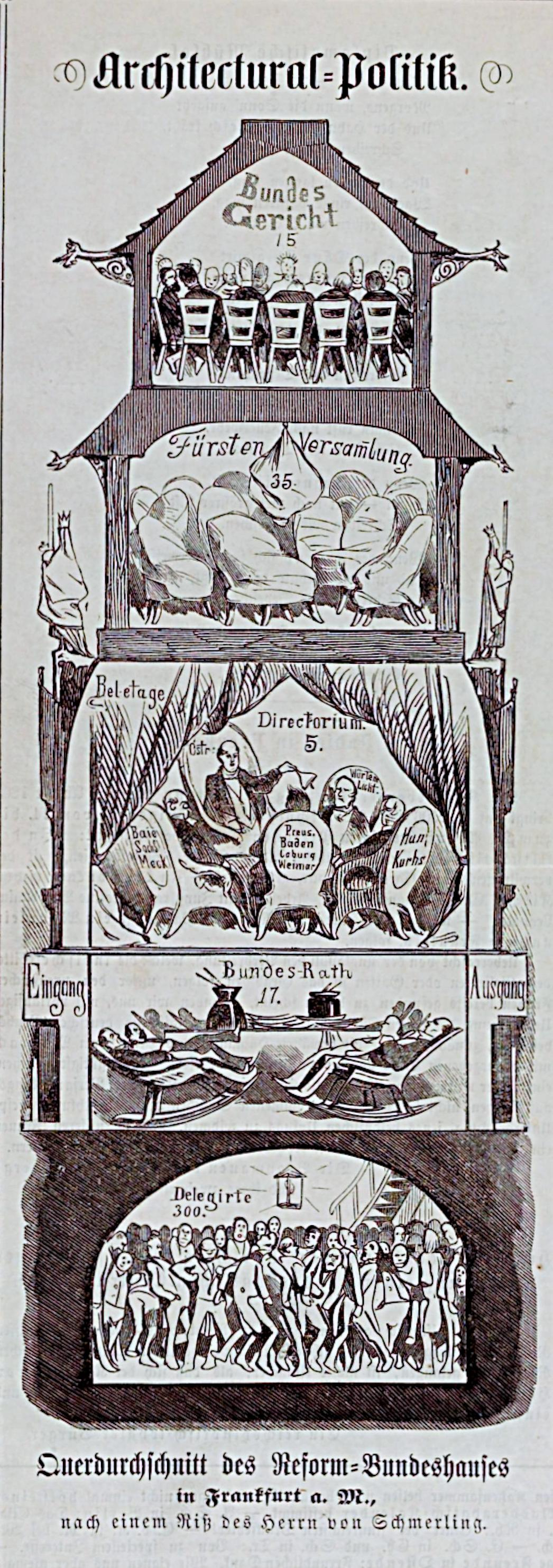 Karikatur, Kladderadatsch. Architectural-Politik. Reform.